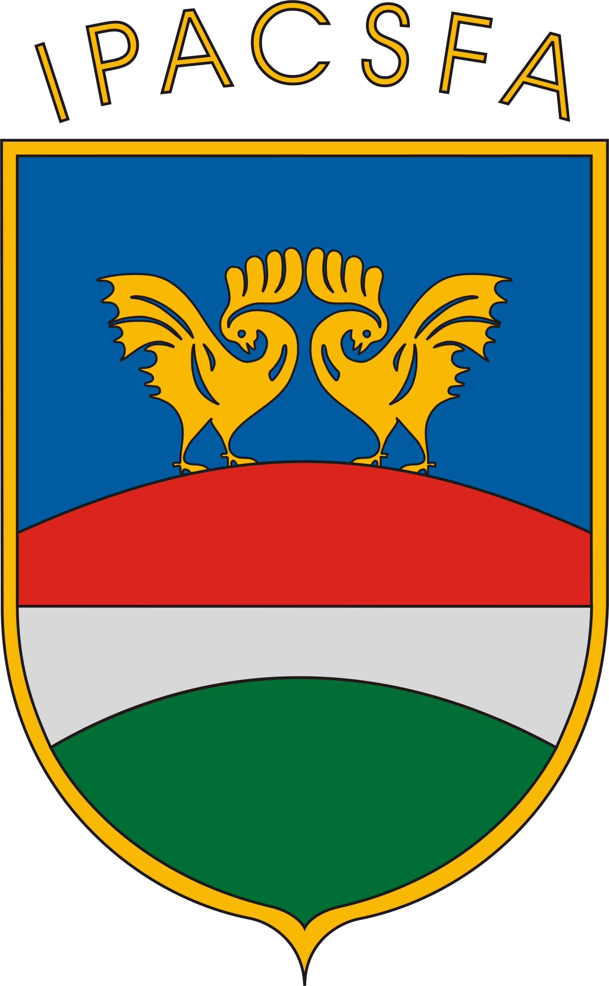 Coat of arms of Ipacsfa, Hungary